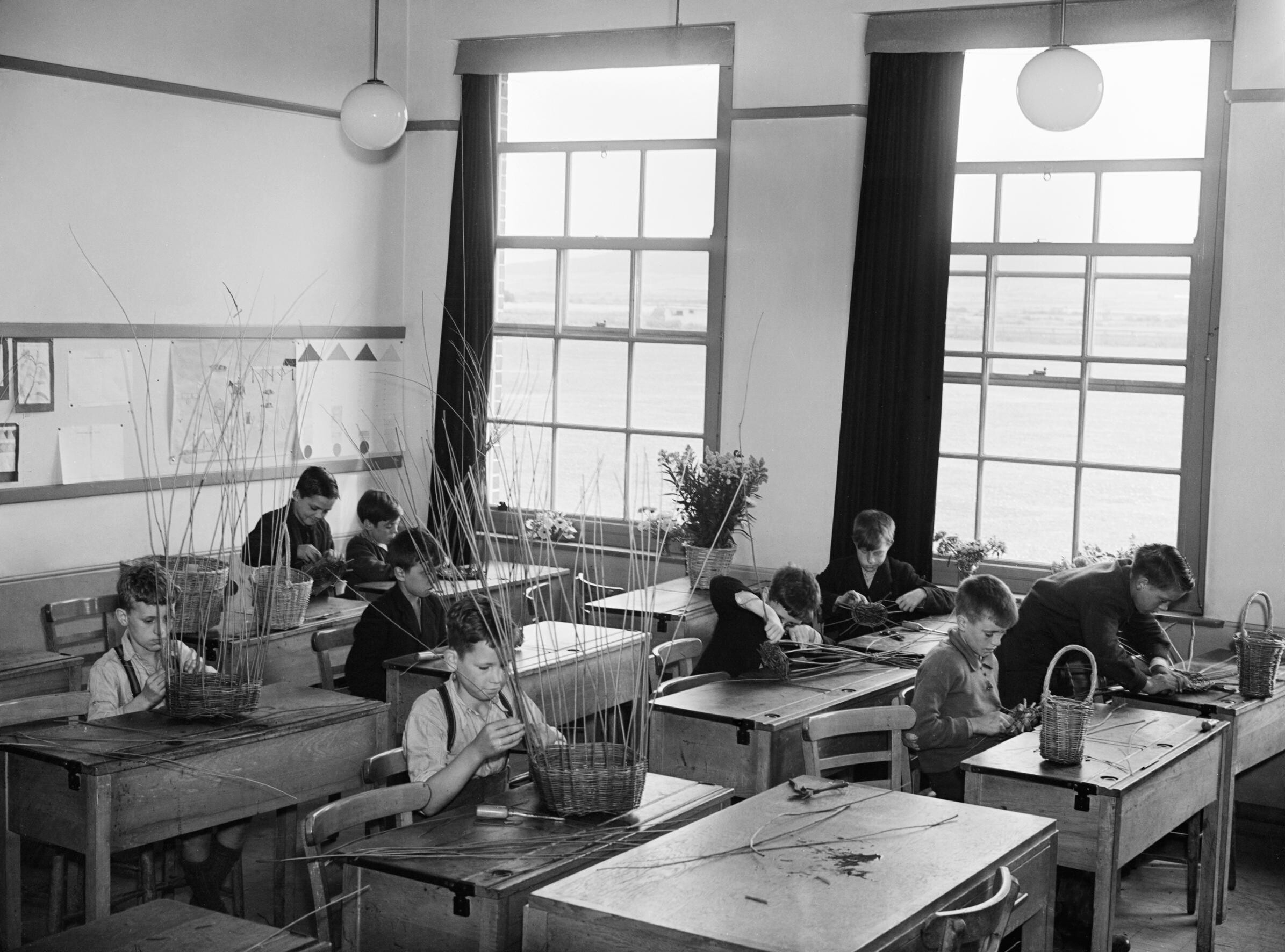 A Modern County School Boys with learning difficulties take a class in willow basket weaving.